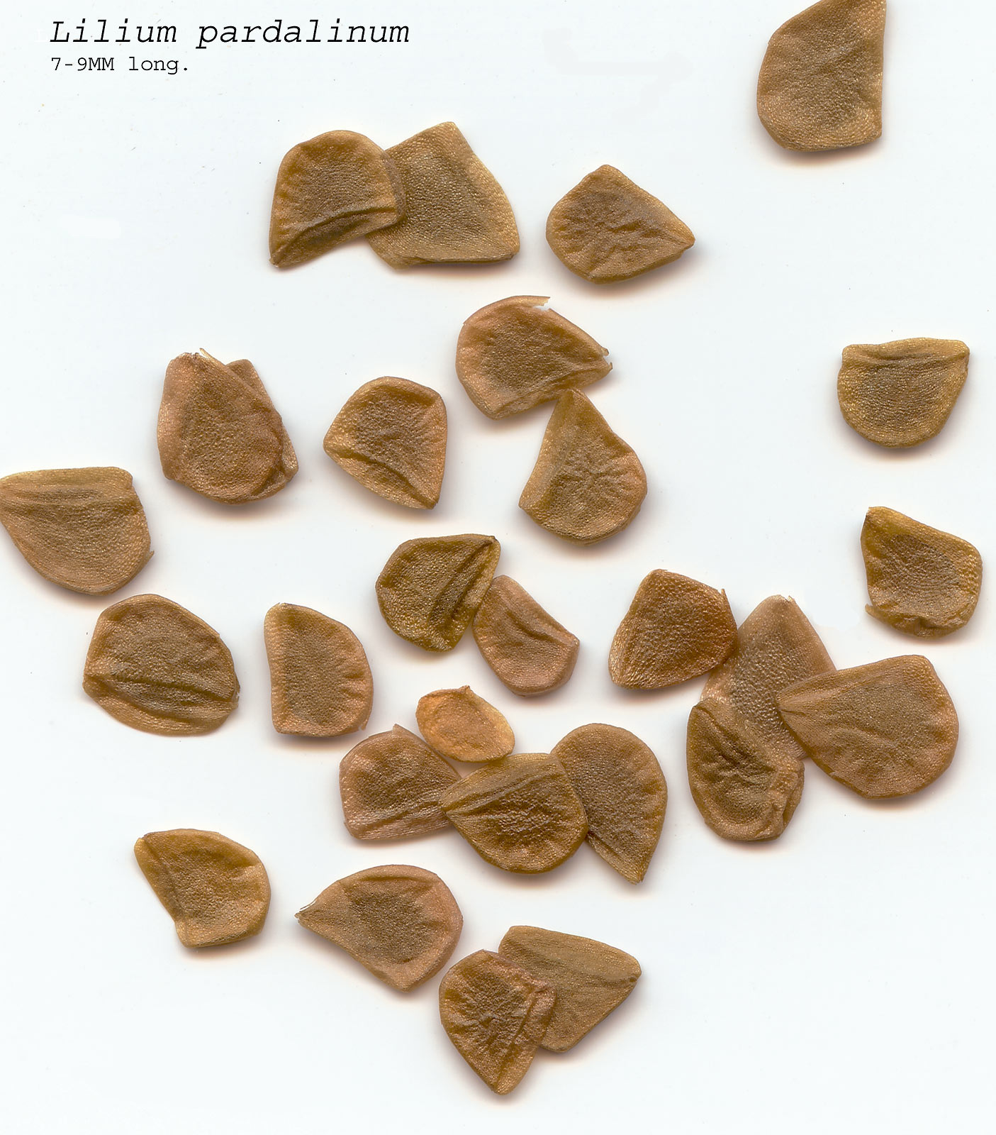 Self made scam of the seeds of Lilium pardalinum made 01/06/2008.